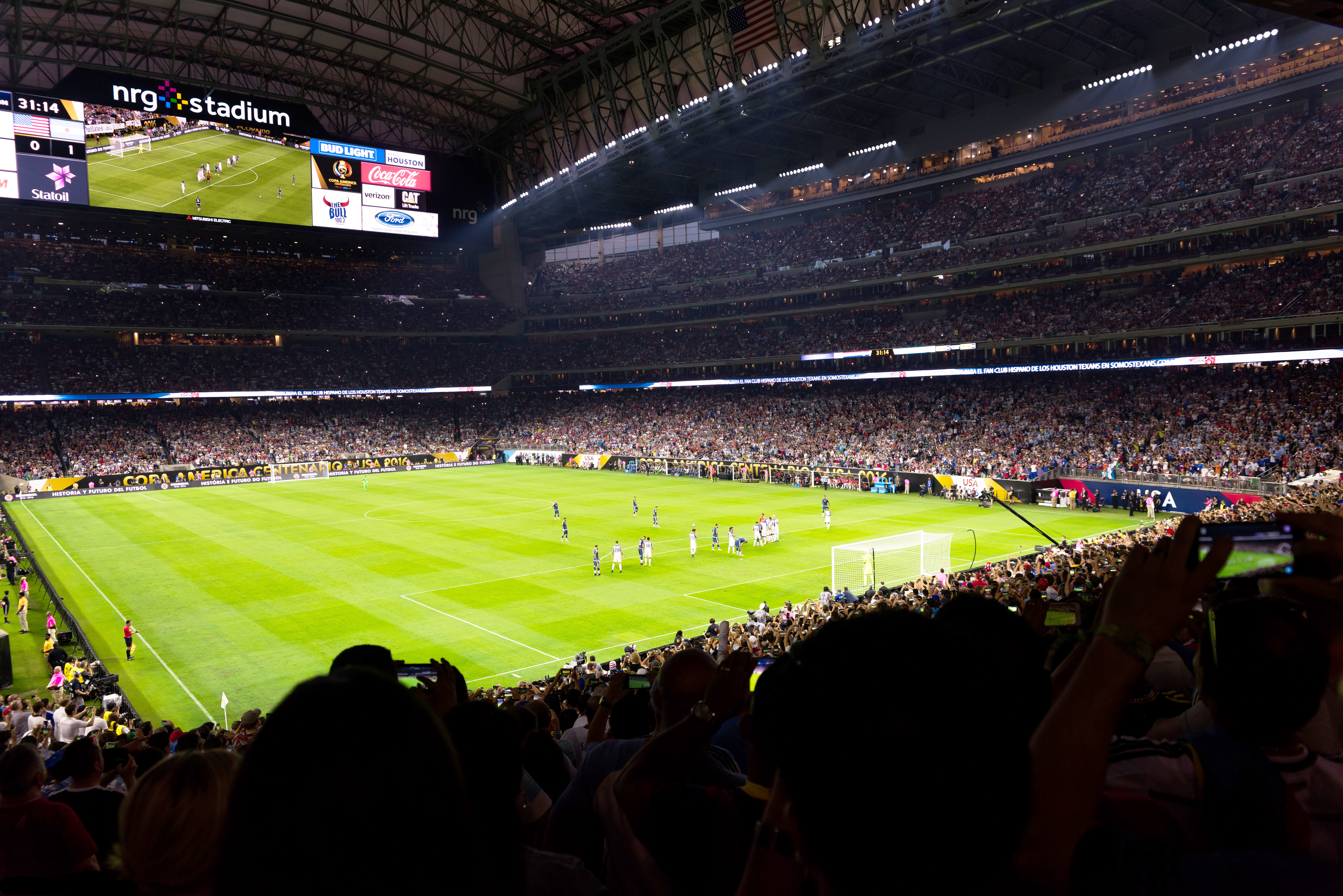 Messi is setting up